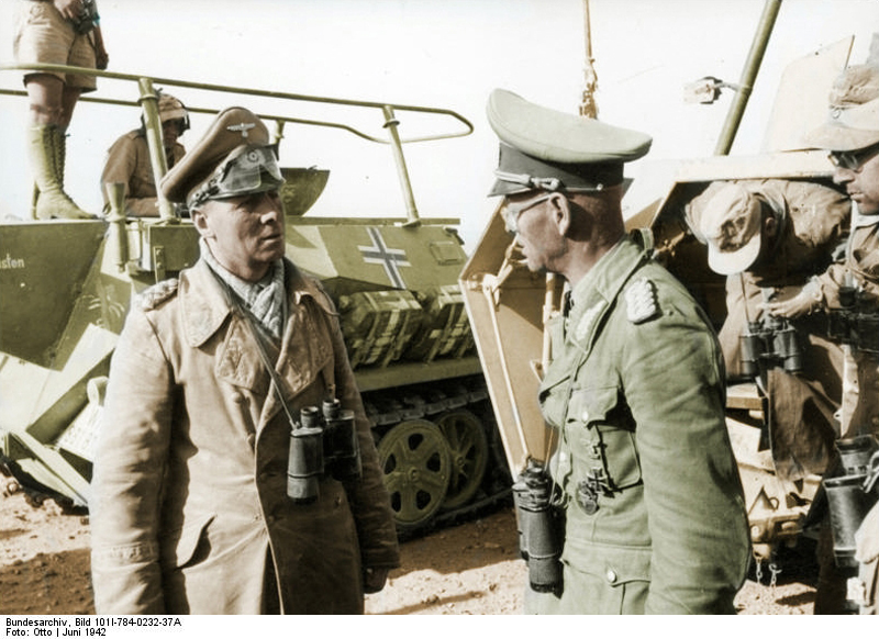 This is a retouched picture, which means that it has been digitally altered from its original version. Modifications: recolored. The original can be viewed here: Bundesarchiv Bild 101I-784-0232-37A, Nordafrika, Erwin Rommel, Georg v. Bismarck.jpg: . Modifications made by Ruffneck88. Nordafrika, Erwin Rommel, Georg v. Bismarck Photographer OttoArchive description Description provided by the archive when the original description is incomplete or wrong. You can help by reporting errors and typos at Commons:Bundesarchiv/Error reports. Nordafrika.- Generaloberst Erwin Rommel bei Besprechung mit Generalmajor Georg von Bismarck vor leichtem Schützenpanzer Sd.Kfz. 250/3 "Greif" (Fotoherausgabe am 25.06.1942); PK "Afrika"Title Nordafrika, Erwin Rommel, Georg v. Bismarck Depicted people Rommel, Erwin: Generalfeldmarschall, Ritterkreuz (RK), Heer, Deutschland (GND 118602446) Bismarck, Georg von: Generalleutnant, Ritterkreuz (RK), Heer, DeutschlandDepicted place North AfricaDate June 1942date QS:P571,+1942-06-00T00:00:00Z/10Collection German Federal Archives Native nameDas BundesarchivLocationKoblenz (headquarters)Coordinates50° 20′ 32.71″ N, 7° 34′ 21.22″ E Established1946Web page control : Q685753 VIAF: 137346469 ISNI: 0000 0004 0555 2728 LCCN: n92025526 NLA: 36455393 Open Library: OL55798A WorldCat institution QS:P195,Q685753Current location Propagandakompanien der Wehrmacht - Heer und Luftwaffe (Bild 101 I)Accession number Bild 101I-784-0232-37A Source This image was provided to Wikimedia Commons by the German Federal Archive (Deutsches Bundesarchiv) as part of a cooperation project. The German Federal Archive guarantees an authentic representation only using the originals (negative and/or positive), resp. the digitalization of the originals as provided by the Digital Image Archive.